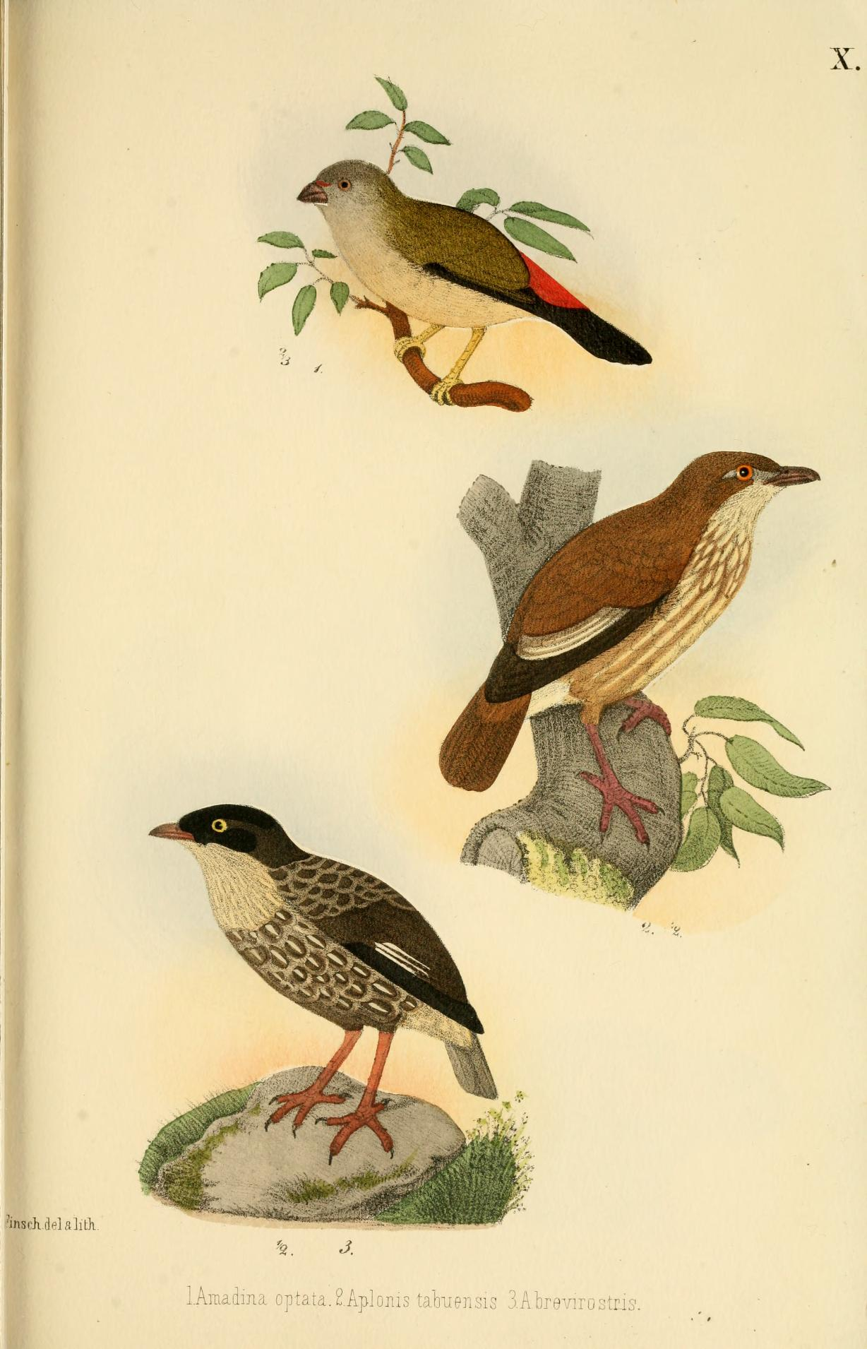 Hartlaub and Finsch Beitrag zur fauna Centralpolynesiens. Ornithologie der Viti, Samoa und Tongainseln Plate 10 Tafel X. Fig. 1. Amadina optata (Mus. Godeffroy) Valid name Pachycephala vitiensis optata Hartlaub, 1866 !!! actually some Neochmia sp. Fig. 2. Aplonis tabuensis. Gml. (Bremer Mus.) Valid name Aplonis tabuensis (Gmelin, 1788) Fig.3 A. brevirostris. Peale Valid name Aplonis tabuensis brevirostris